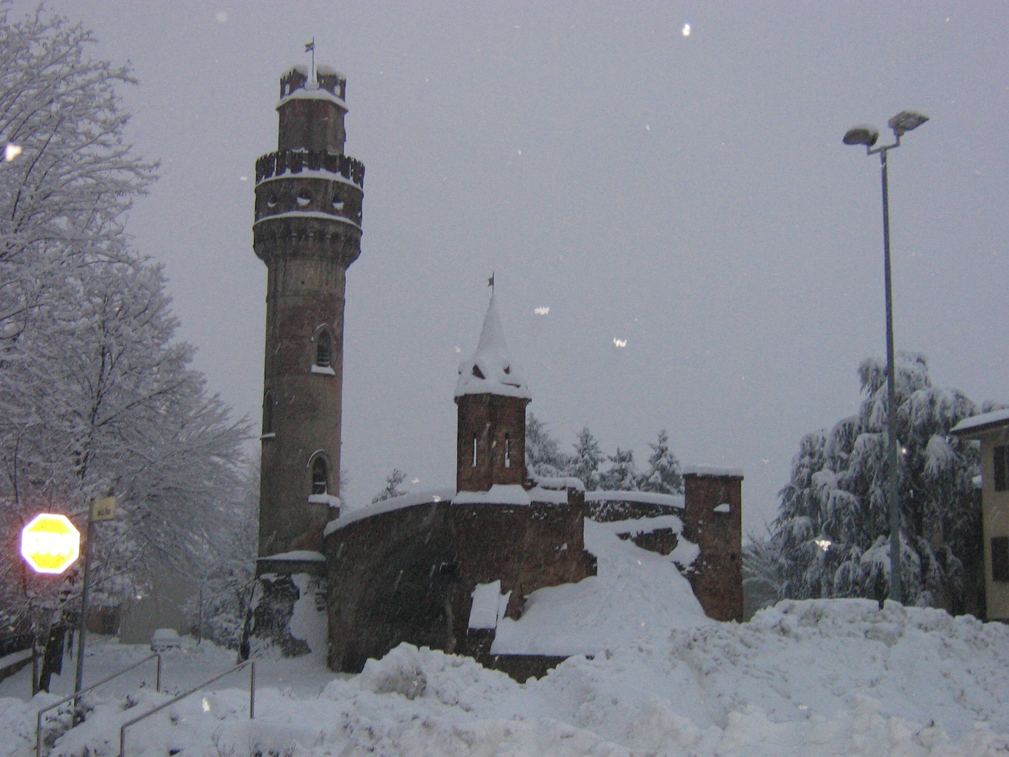 Casalbuttano (Prov. of Cremona, Italy): Norma's Tower, a 18th century neogothic building named after the famous opera by Vincenzo Bellini.